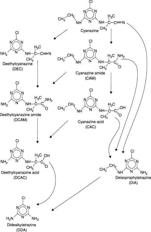 It shows the different steps of de degradation of cyanazine